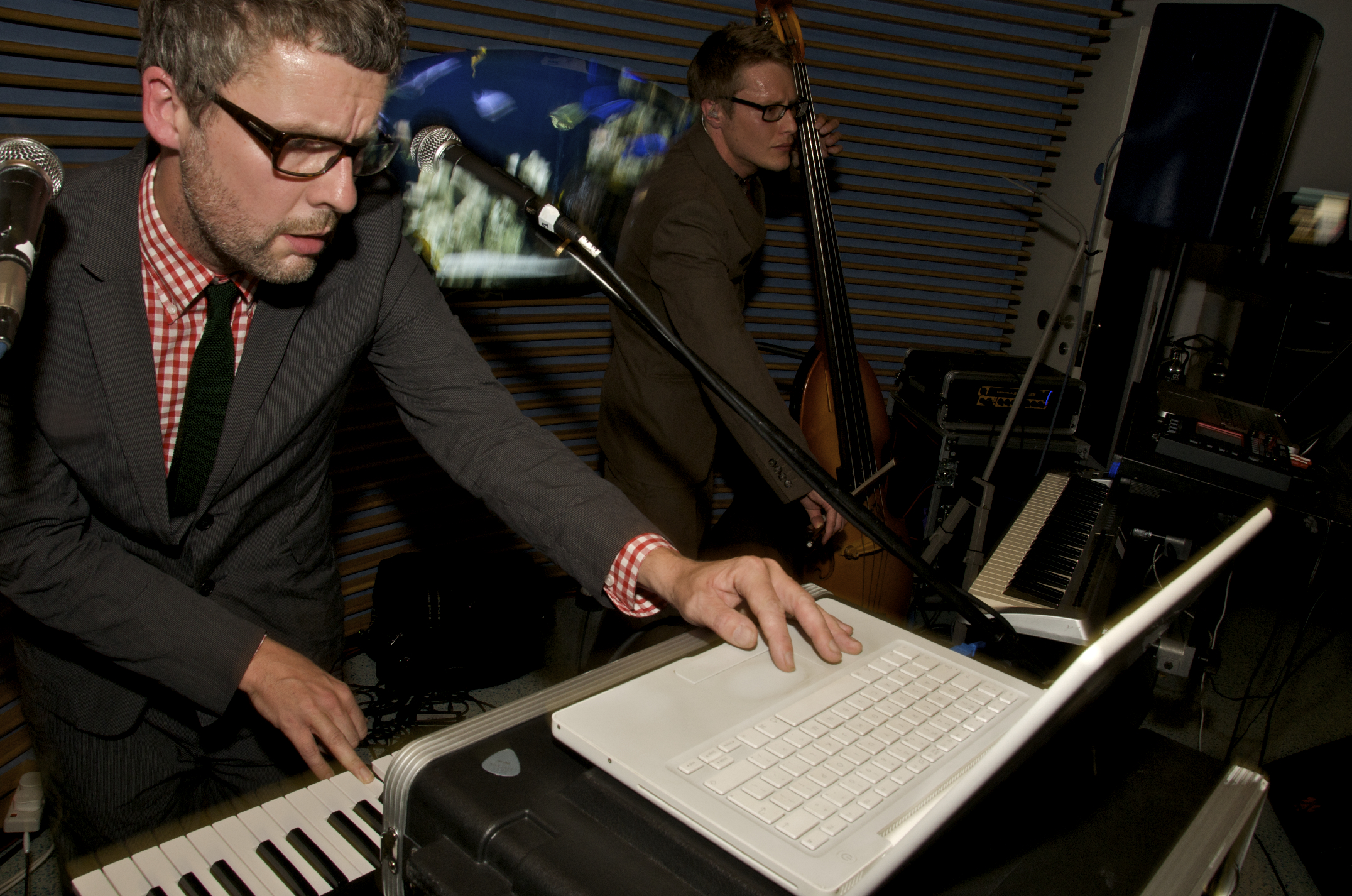 Grasscut. My Hotel, Brighton Live 2009 - Oct 2009.